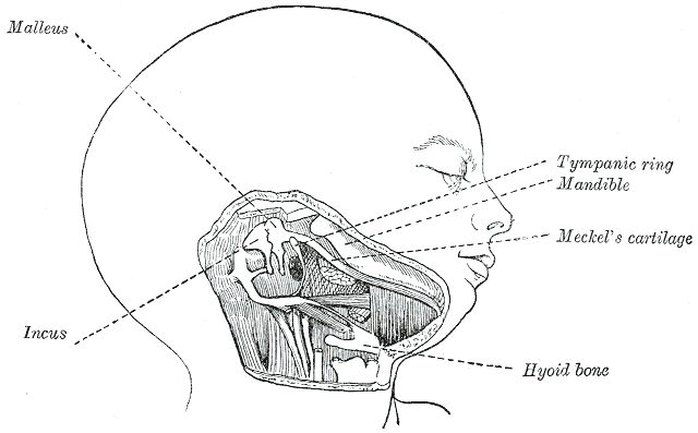 Head and neck of a human embryo eighteen weeks old, with Meckelâ€™s cartilage and hyoid bar exposed. (After KÃ¶lliker.)